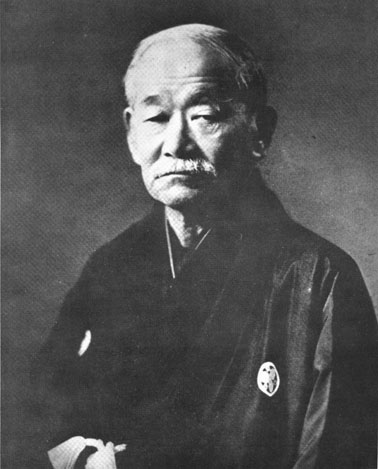 嘉納治五郎 (Kano Jigoro, 1860 - 1938), the founder of modern Judo.